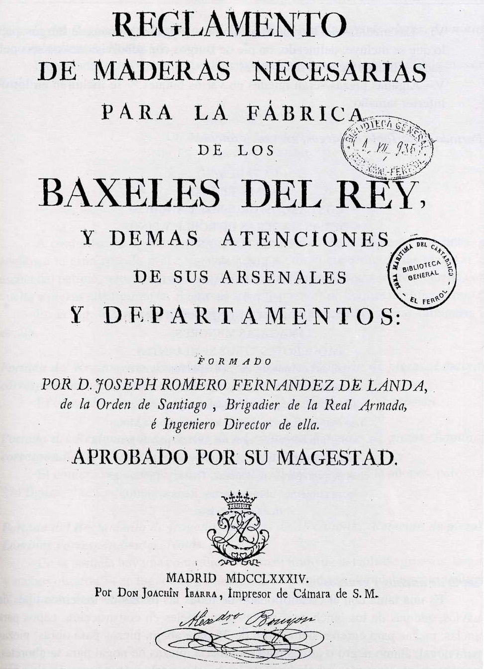 Cover from book: "Reglamento de maderas necesarias para la fabrica de los Baxales del Rey, y demás atenciones de sus arsenales y departamentos"